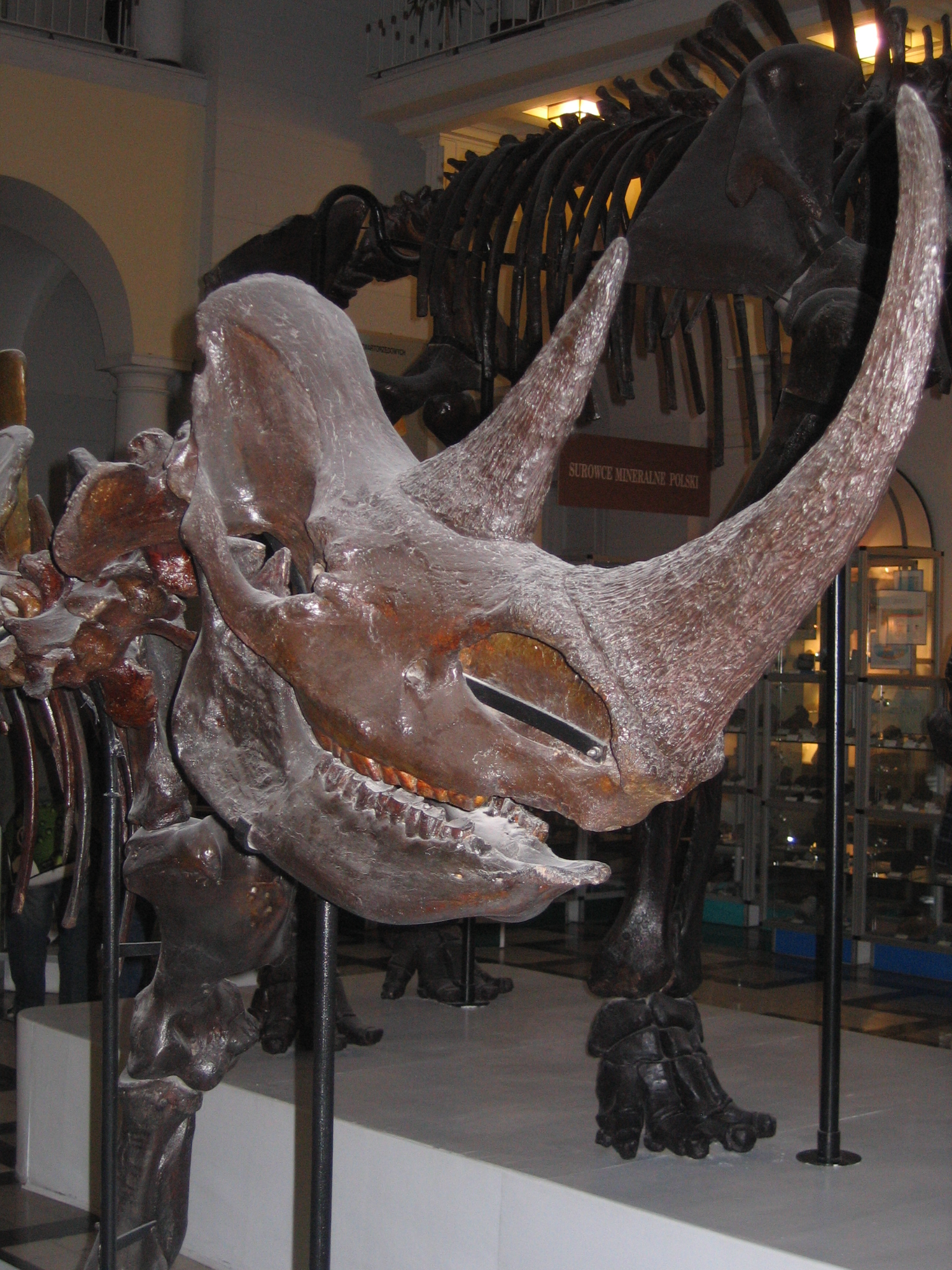 Nosorożec włochaty / Woolly Rhinoceros in Geology Museum Warsaw